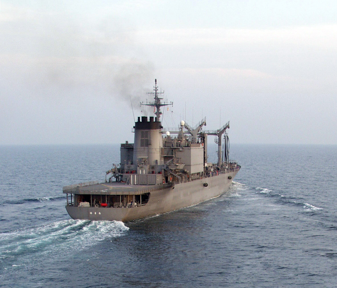 JS Hamana (AOE 424) sails in front of the guided missile cruiser USS Antietam (CG-54) for a refueling at sea.